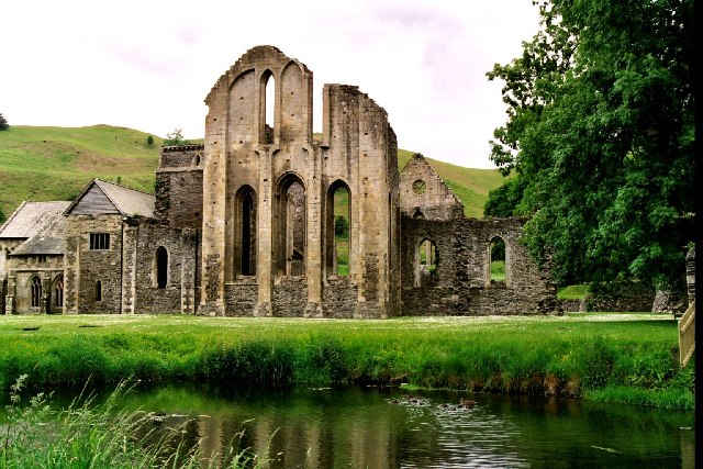 Valle Crucis Abbey, Denbighshire, Wales. Near to Llangollen,in one of the most beautiful settings in Britain, stand the romantic Cistercian ruins of Valle Crucis Abbey (which means Valley of the Cross). This view shows the east end of the church. The abbey was founded by Madog ap Gruffydd in 1201.